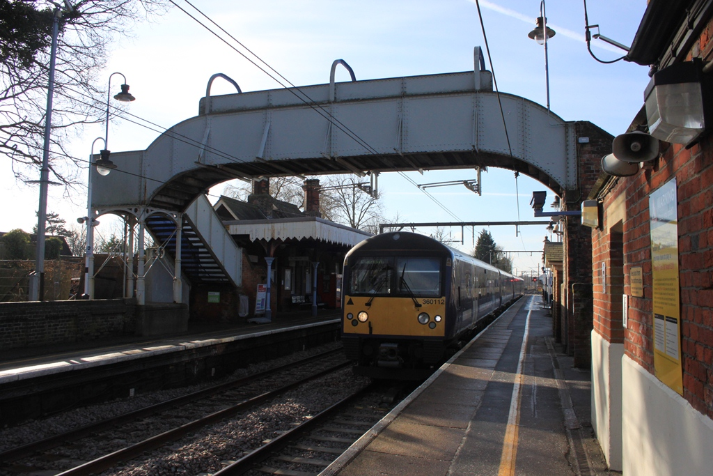 Greater Anglia's 360112 calls at Ingatestone with a northbound service to Clacton-On-Sea on the Great Eastern Main Line.